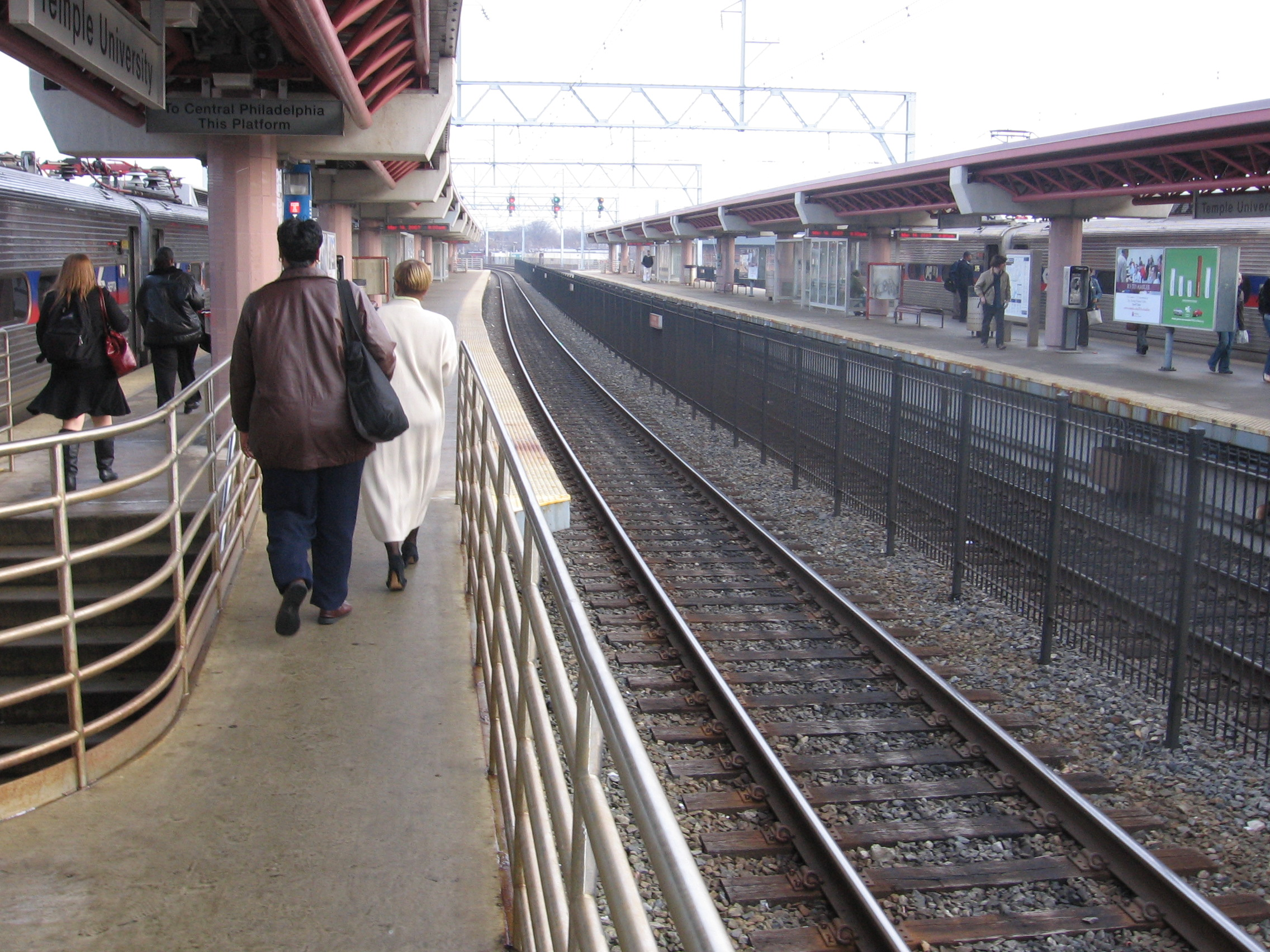 Temple University Station, from southern end, looking north.